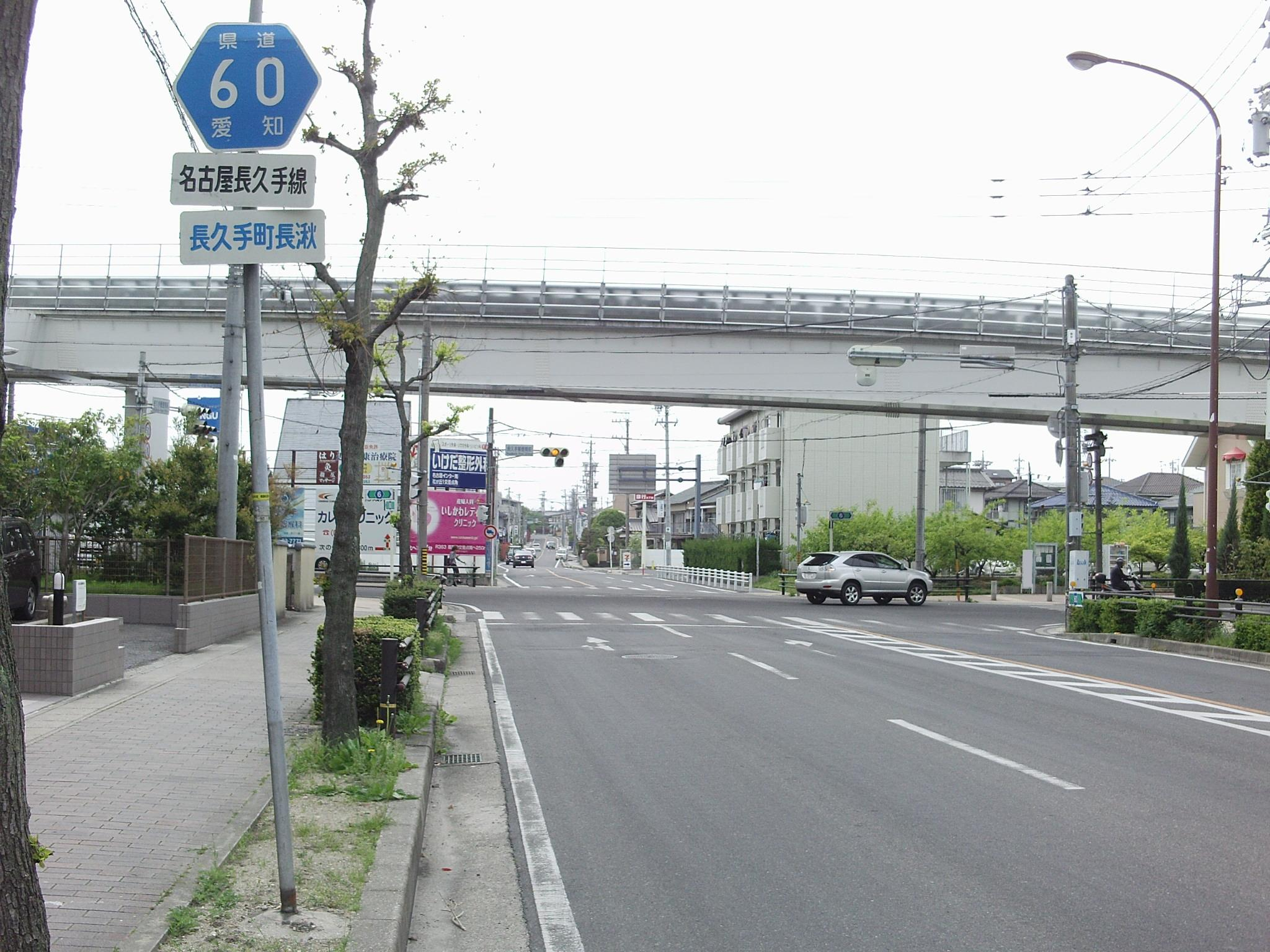 The Aichi Prefectural Road Route 60 in Nishiura, Nagakute Town